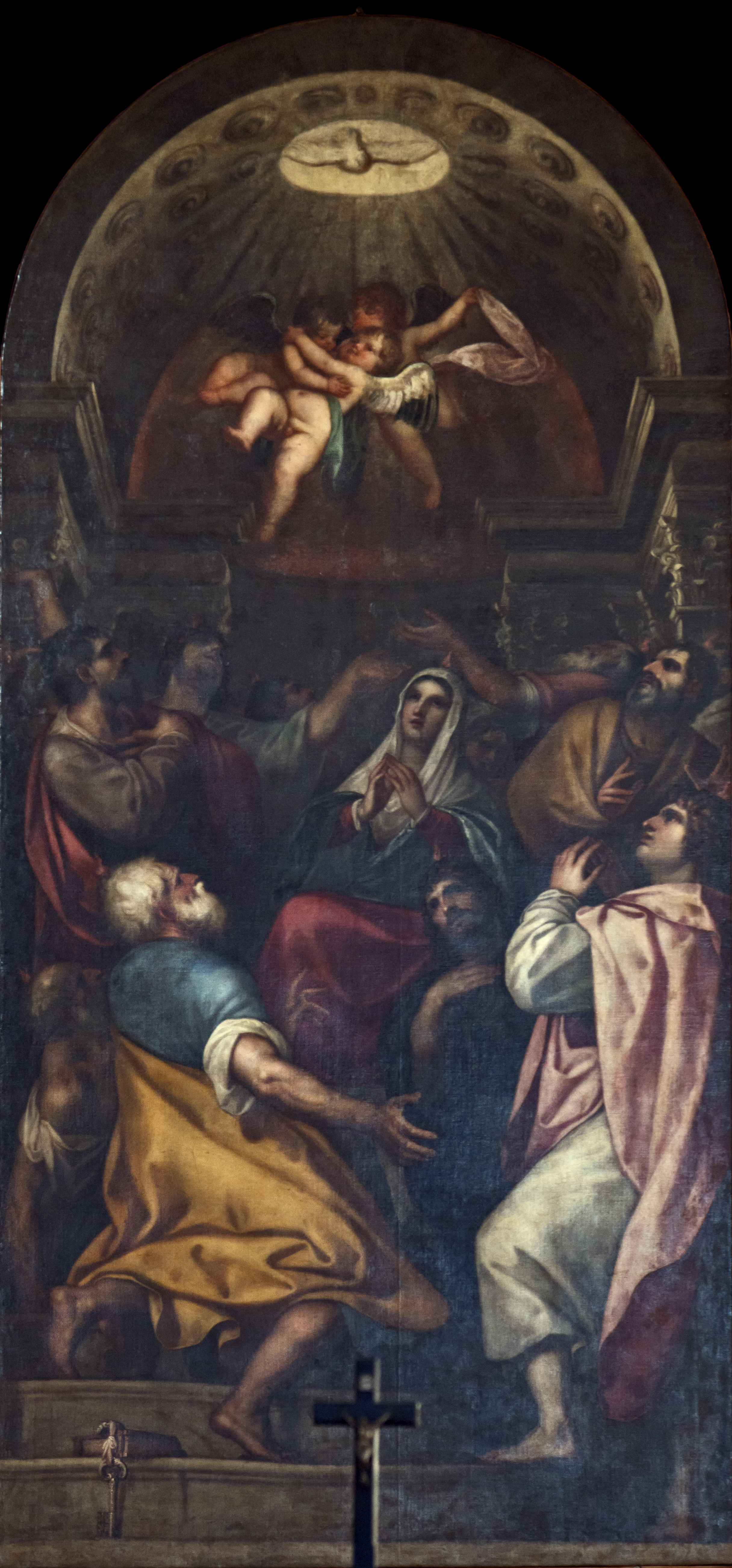 Santa Maria della Visitazione in Venice, "The miracle of Pentecost" by Padovanino, visible behind the main altar.